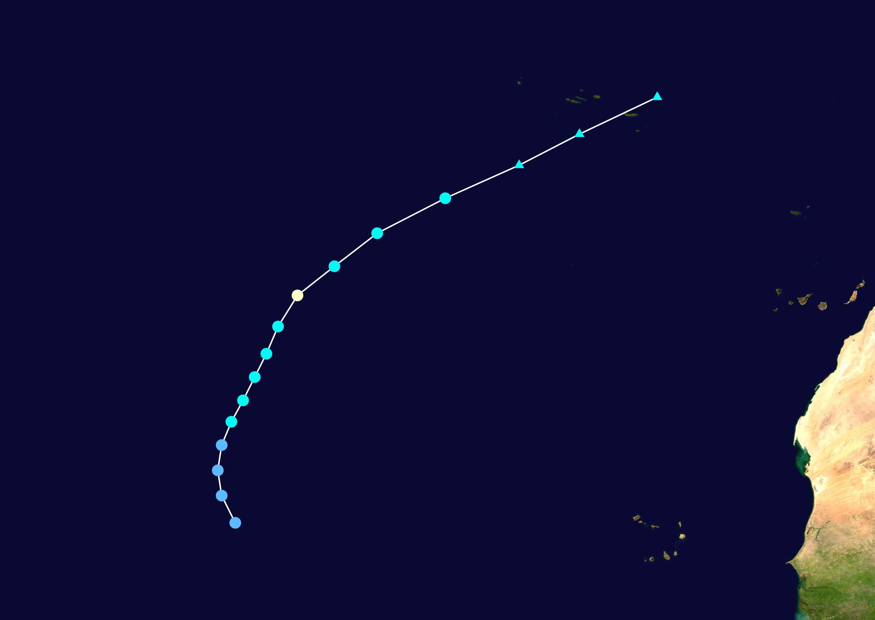 Hurricane Flora (1959) track. Uses the color scheme from the Saffir-Simpson Hurricane Scale.